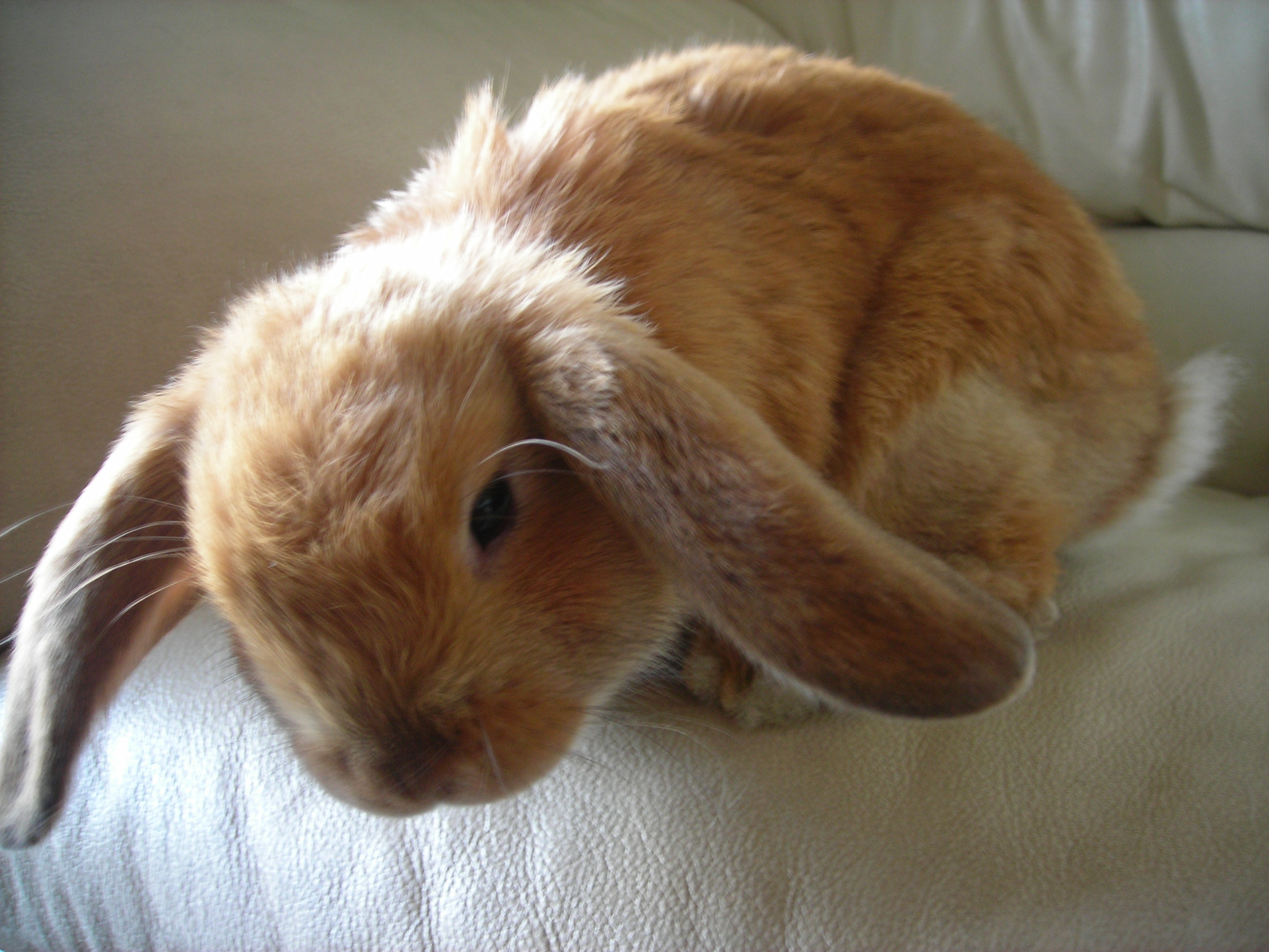 A Holland Lop bunny